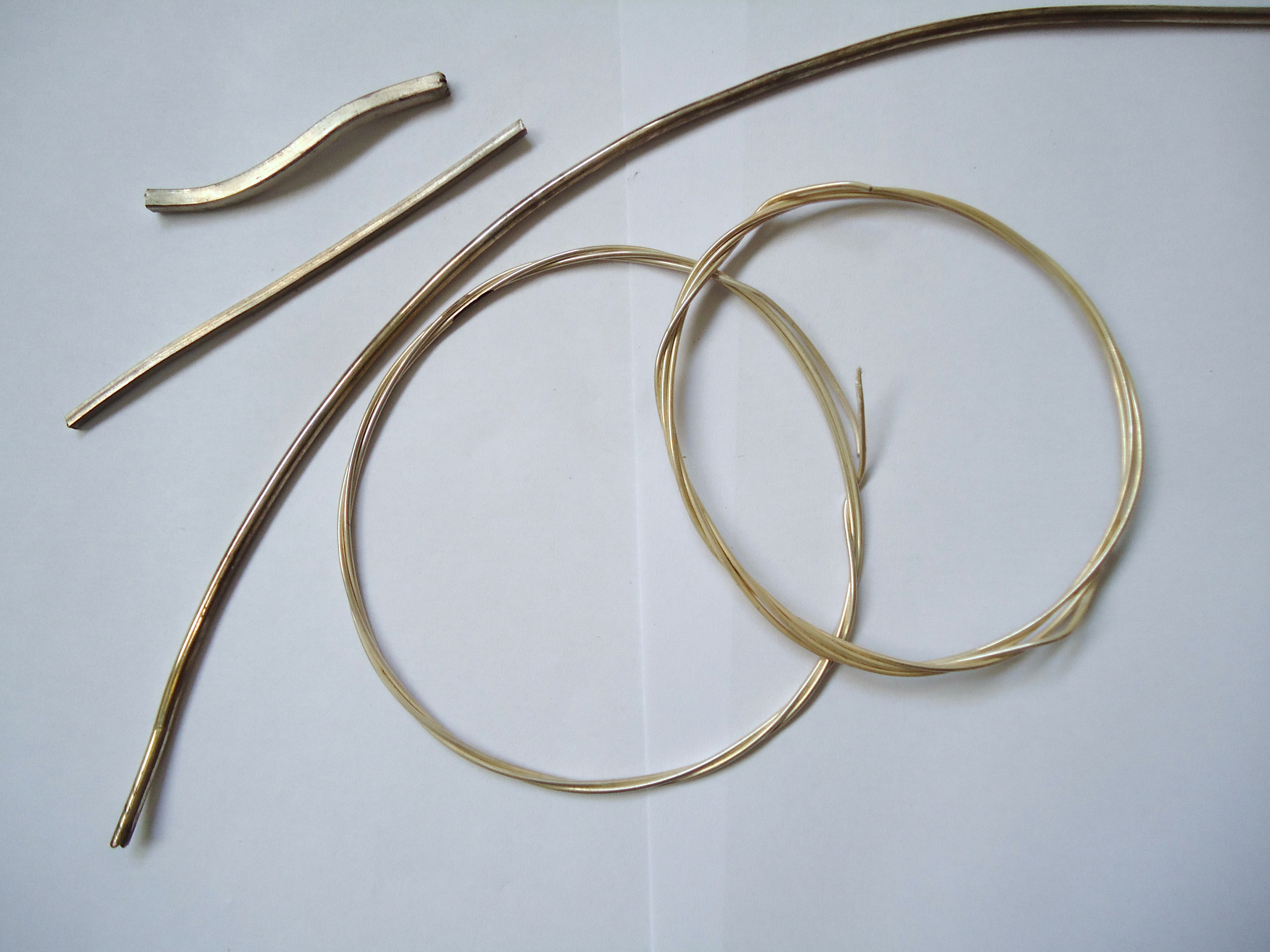 Silver wires. Mauro Cateb, Brazilian jeweler.